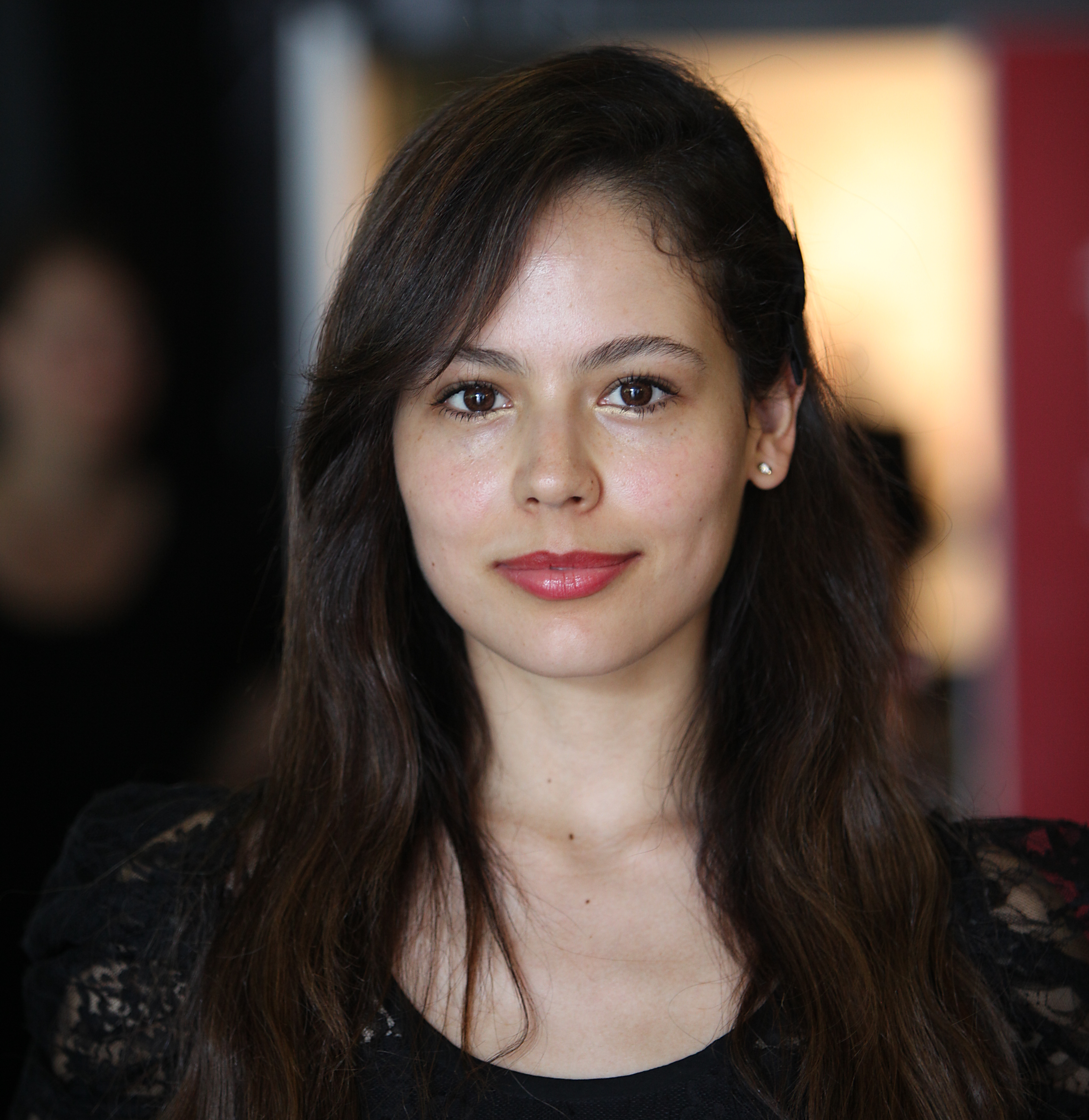 Colombian actress Martina García at 2010 Karlovy Vary International Film Festival